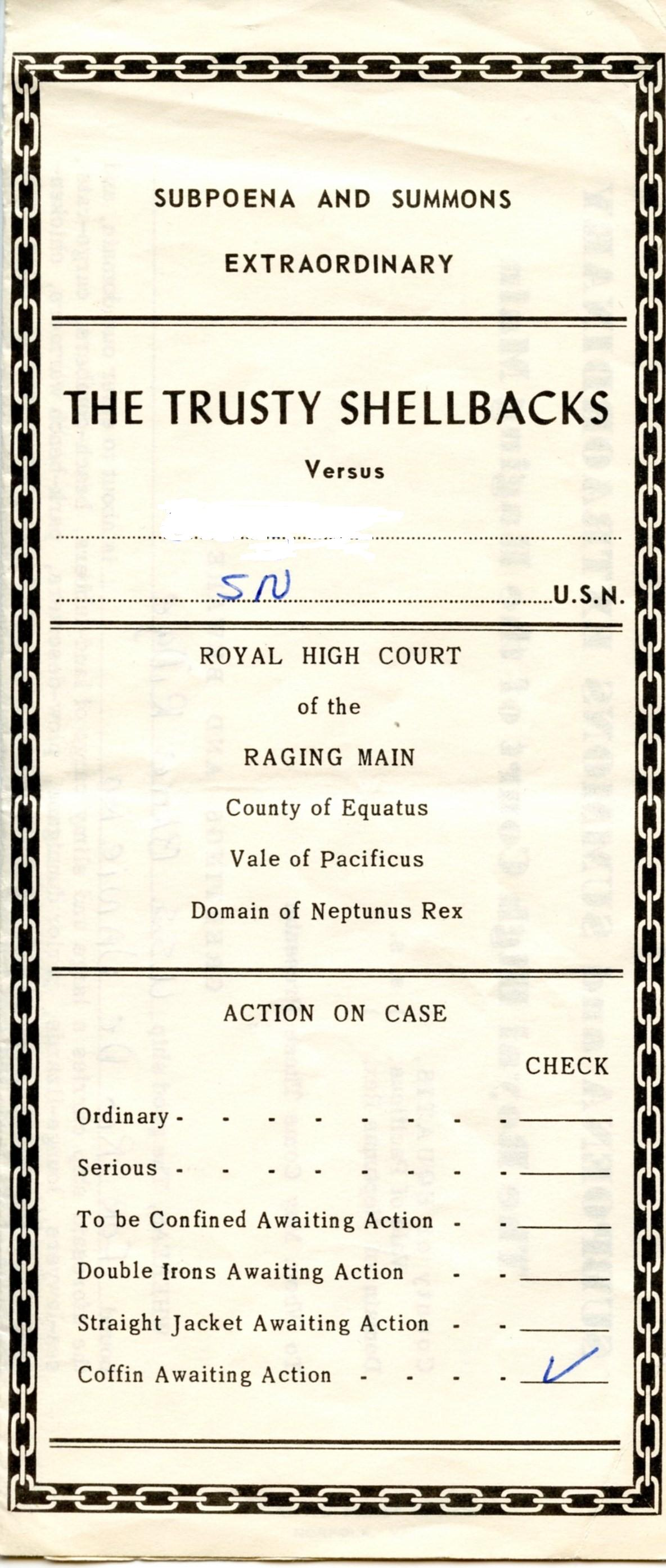 Wog charges in the summons.